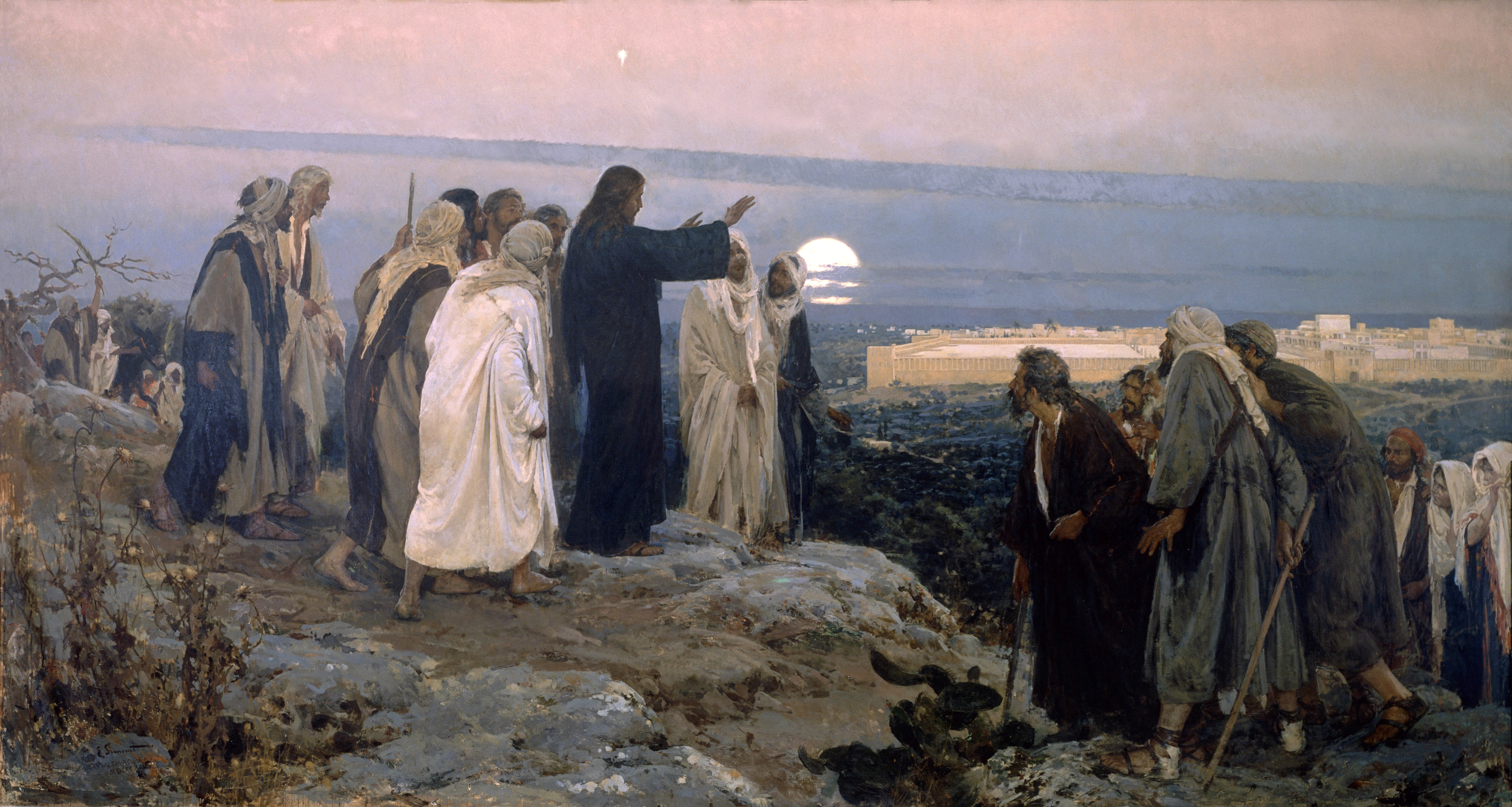 According to the 19th chapter of the Gospel of Luke, as Jesus approaches Jerusalem, he looks at the city and weeps over it (Luke 19:41) (an event known as Flevit super illam in Latin language), foretelling the suffering that awaits the city. The event took place on the Mount of Olives, on the background the Second Temple.